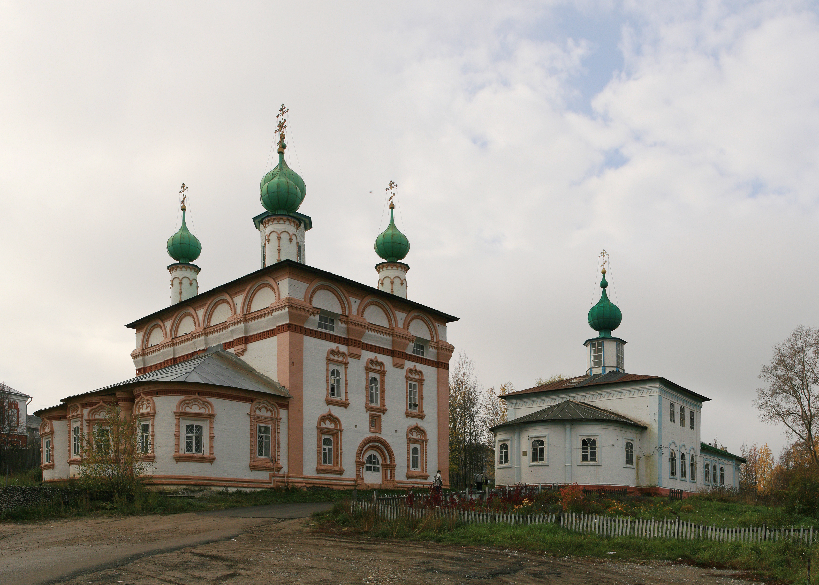 Transfiguration Church and Saint Michael Church, Solikamsk, Perm Krai